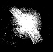 Drawing of the nucleus and twin tails of Great Comet of 1823